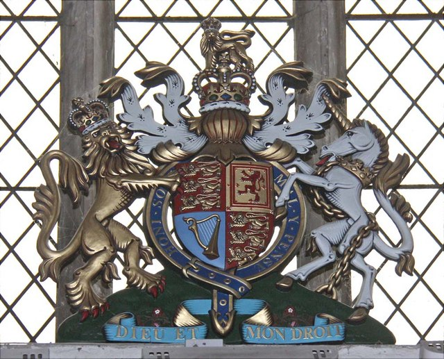 St Mary, Stone, Kent - Royal Arms